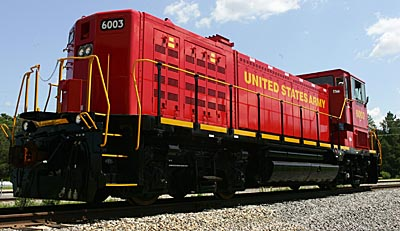 A view of Fort McCoy's new locomotive, road number 6003, which will help support the installation's rail missions. (Photo by Rob Schuette) (the uploader confirmed on other websites what type of locomotive this is based on the road number)